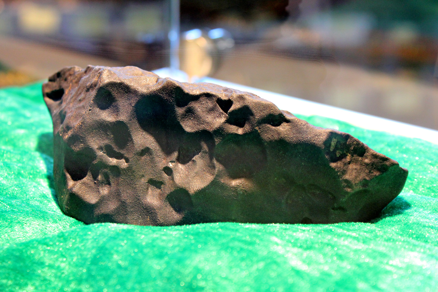 Main mass (1320g) of the Stubenberg meteorite, on display at the Munich gem and mineral show 2016. This meteorite fell on 2016 March 6 in Bavaria, Germany, and it is classified as ordinary chondrite, LL6.